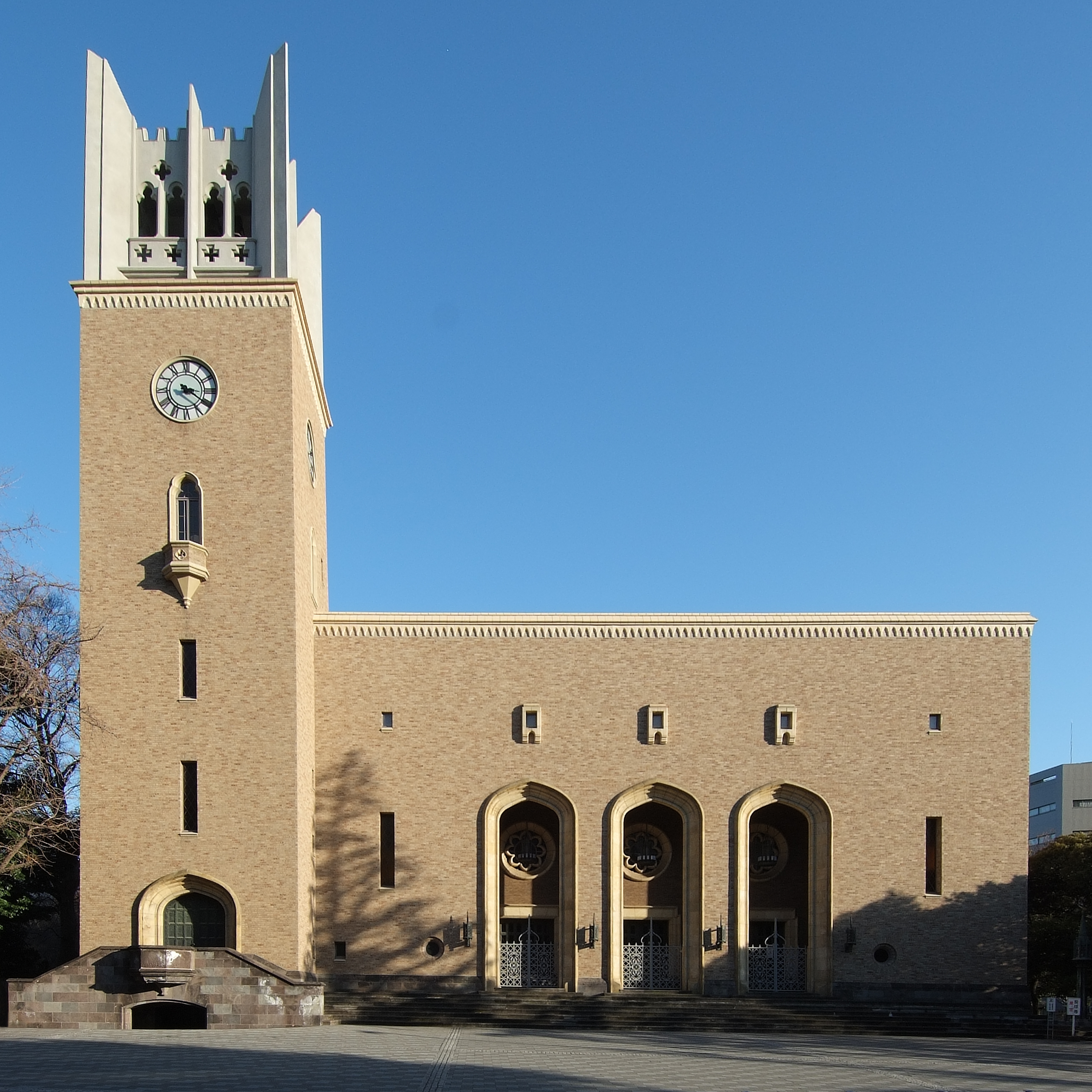 Okuma Auditorium of Waseda University, at Waseda Tokyo Japan, design by Koichi Sato in 1927.